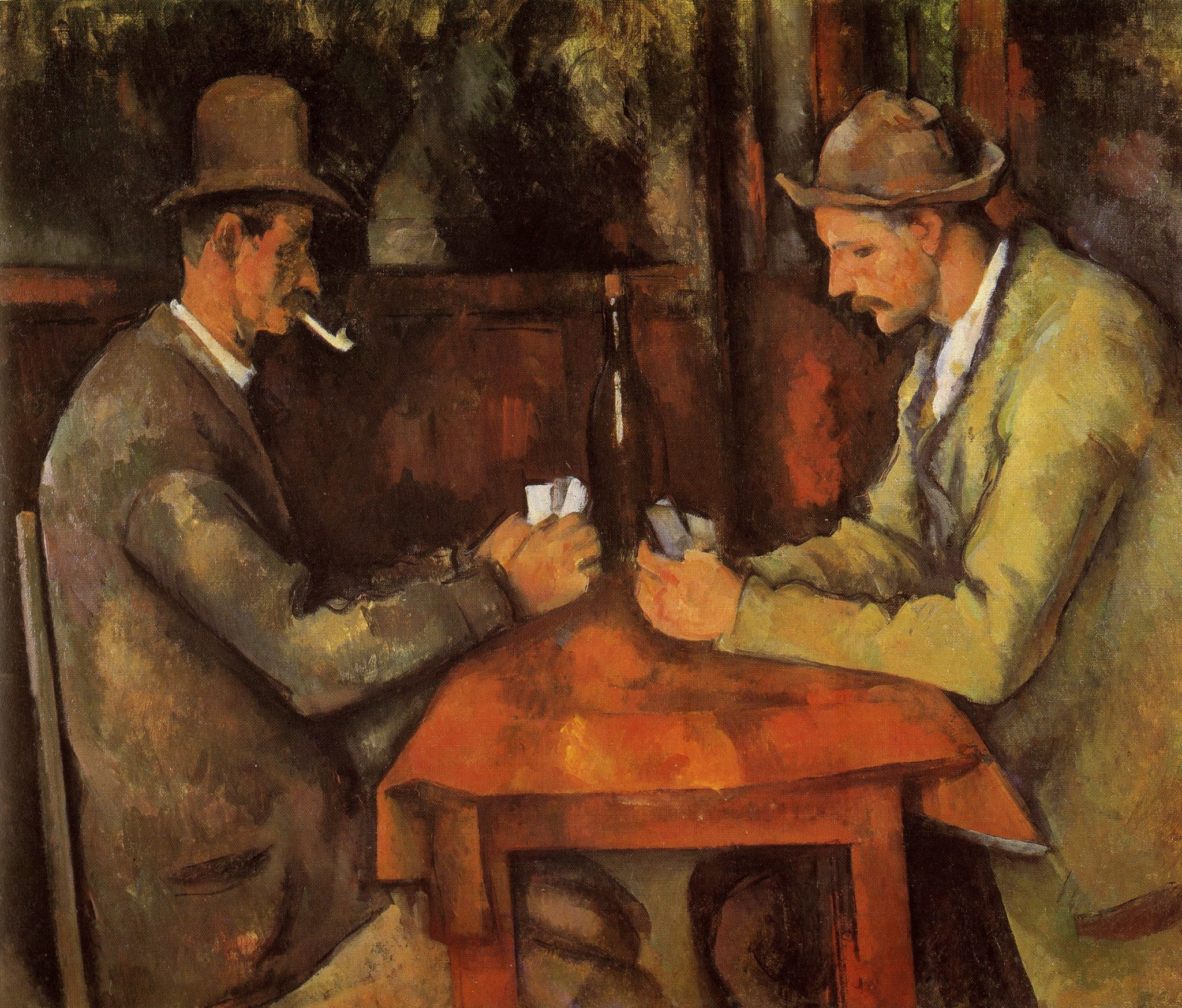 Card Players (5th version) (ca.1894-1895) by Paul Cezanne, oil on canvas, Musée d'Orsay